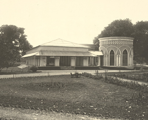 Photograph taken by Fritz Kapp in 1904 with a general view looking towards a pavilion in the Nawab's Shahbagh gardens in Dacca (Dhaka, now the capital of Bangladesh), part of an album of 30 prints from the Curzon Collection. Lord Curzon was Viceroy of India from 1899-1905. In February 1904, he toured Eastern Bengal and visited Dhaka on the 18th and 19th where he stayed at the Ahsan Manzil Palace. This album of gelatine-silver prints commemorates his Dhaka visit, though it is not a record of it and only presents us with general views. Kapp worked as a commercial photographer from the 1880s onwards and had studios in Chowringhee Road and Humayun Place in Calcutta. From the early 1900s he had a studio in Wise Ghat Road in Dhaka. Dhaka became prominent in the 17th century as a provincial capital of the Mughal empire, and was a major centre of trade, particularly in fine muslins. Its history, though largely obscured, is ancient, and it was brought under Islamic rule by the 13th century, first by the Delhi Sultanate then by the independent sultans of Bengal, after which it was taken by the Mughals in 1608. In the 18th century Dhaka was eclipsed by Murshidabad under the Nawabs of Bengal and its population diminished. As the fortunes of the Nawabs declined, the power of the East India Company became a new factor. Queen Victoria’s Proclamation in 1858 brought all the territories held by the Company (including Dhaka) under British rule.